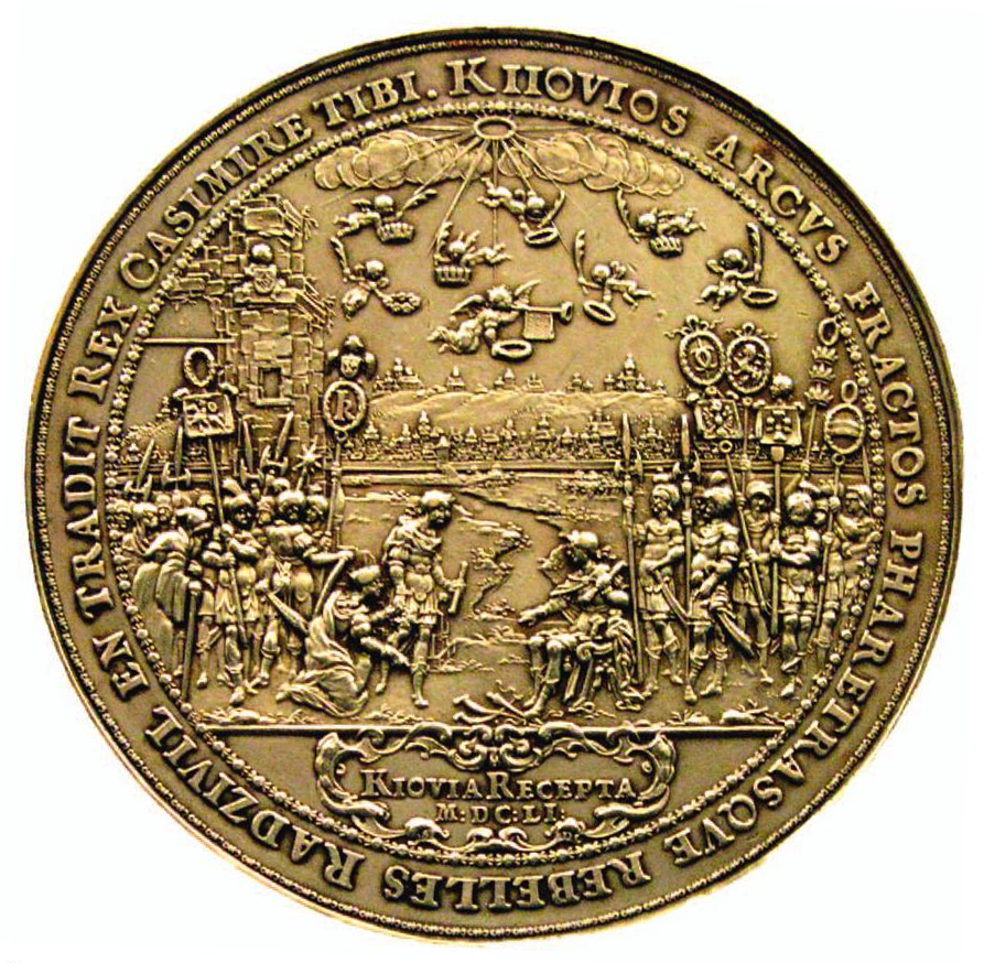 Medal commemorating recapture of Kyiv by Janusz Radziwiłł in 1651: KIIOVIOS ARCVS FRACTOS PHARETRASQVE REBELLES RADZIVIL EN TRADIT REX CASIMIRE TIBI. KIOVIA RECEPTA M:DC:LI